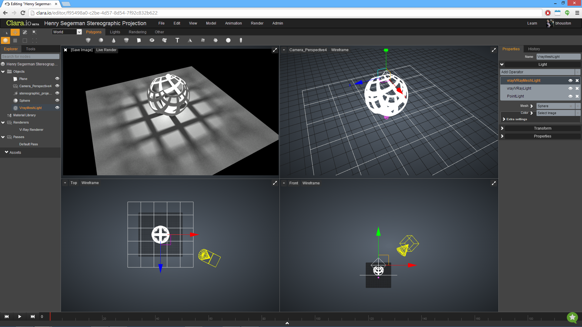 A screenshot of Henry Segerman's stereographic projection STL file in Clara.io.